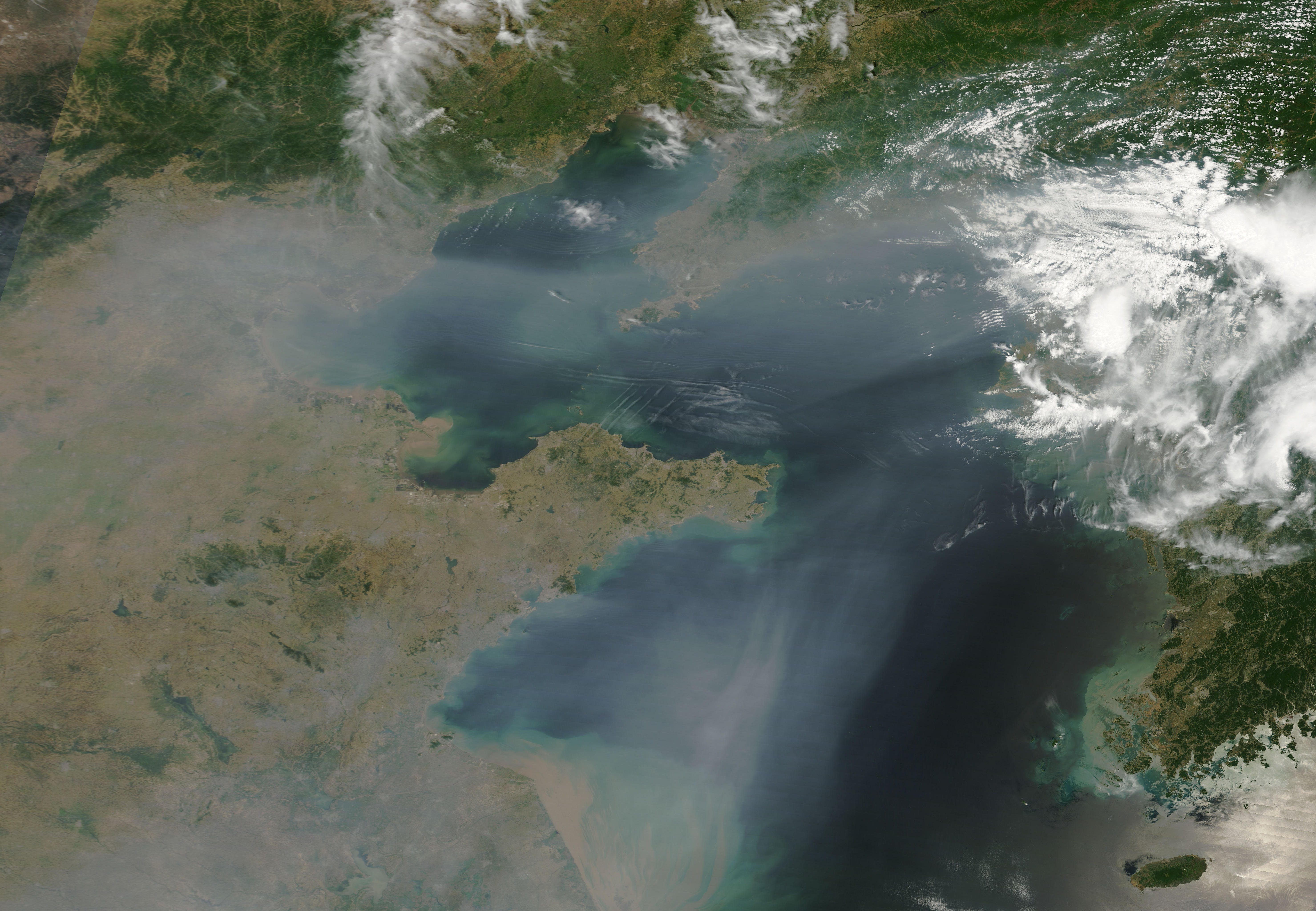 Thick haze blown off the Eastern coast of China, over Bo Hai Bay and Yellow Sea. The haze likely results from urban and industrial pollution.